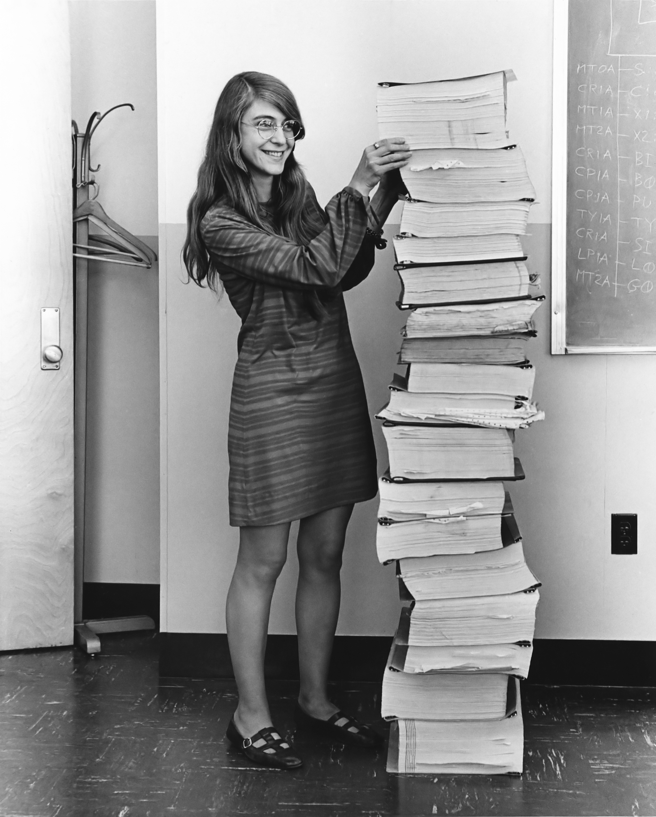 Margaret Hamilton standing next to the navigation software that she and her MIT team produced for the Apollo Project.